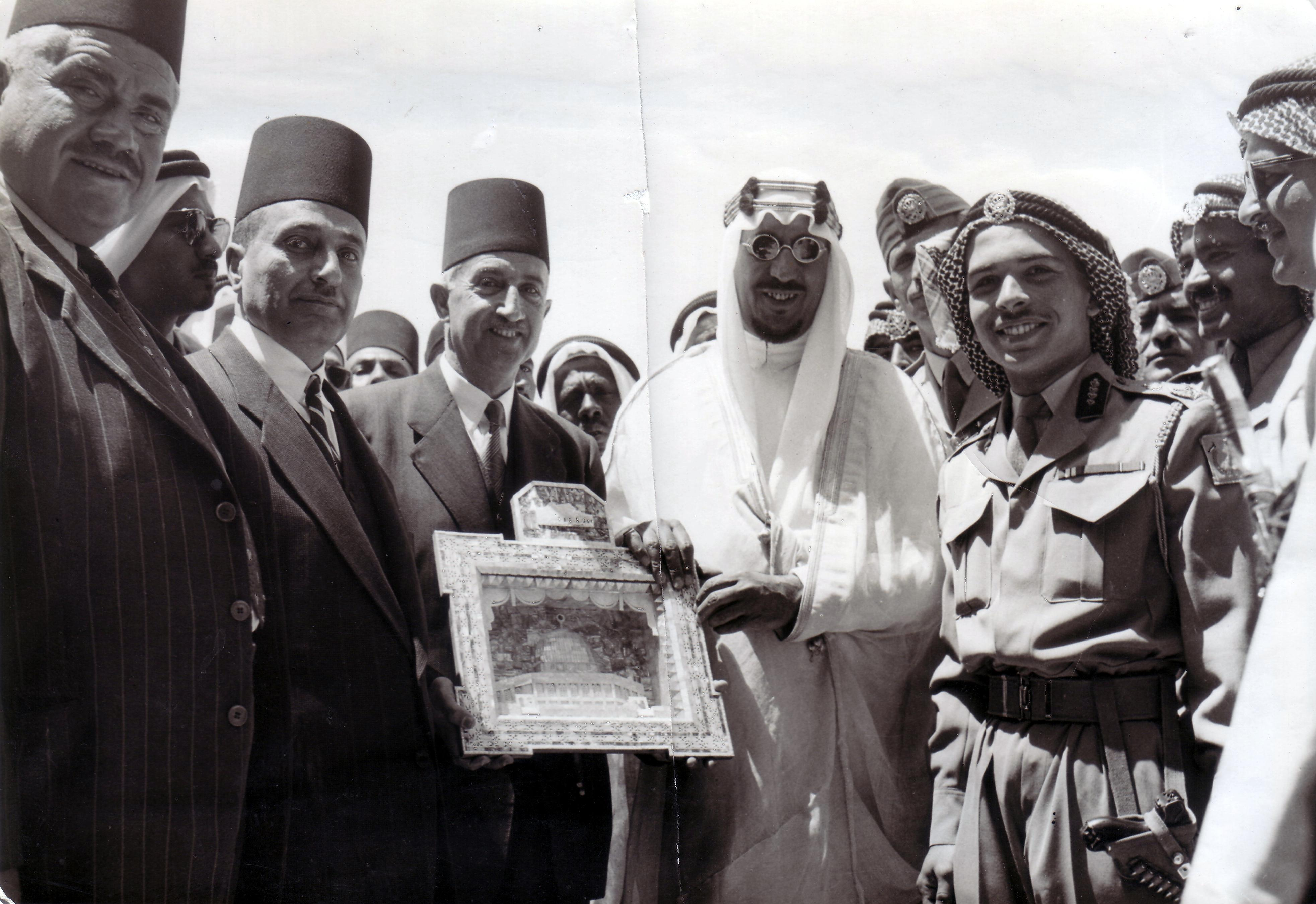 The royal visit of King Saud bin AbdulAziz Al Saud of the Kingdom of Saudi Arabia and King Hussain of the Hashemite Kingdom of Jordan to the Holy City of Jerusalem in 1953.